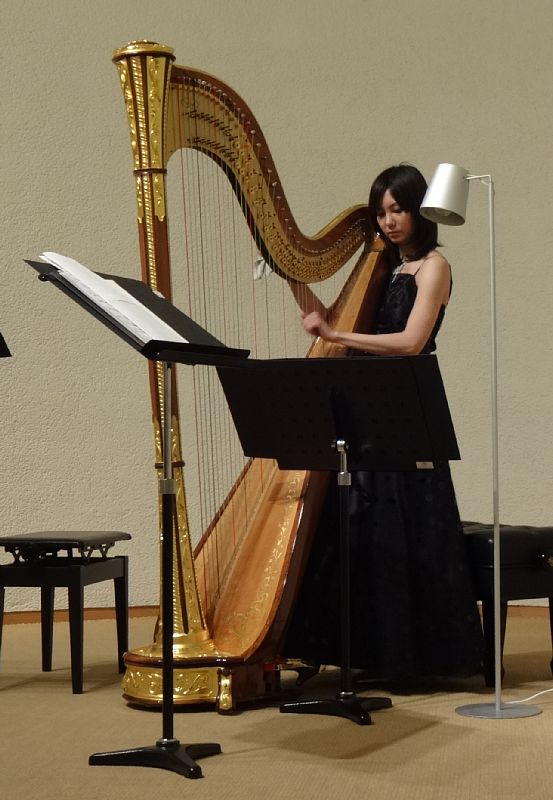 double action pedal harp